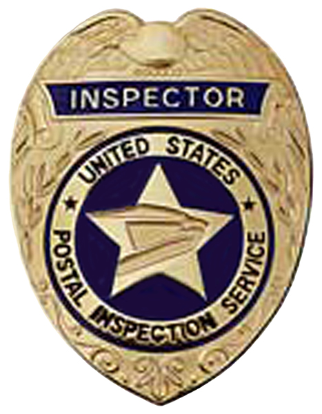 Stock photography by US Postal Inspection Service. USPIS is a government agency.